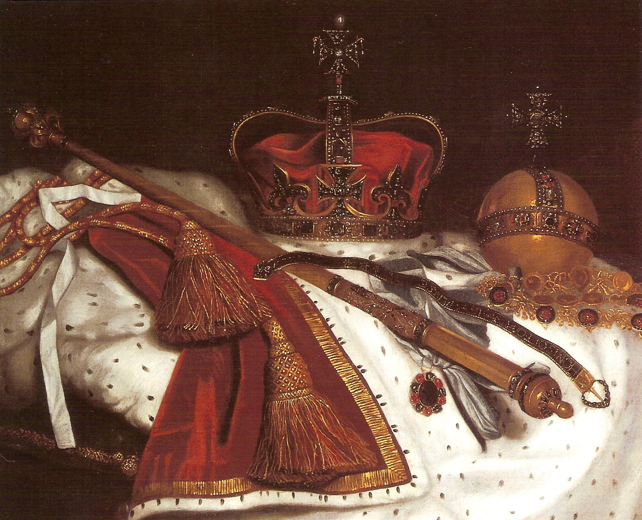 Insignias of King Charles I of England